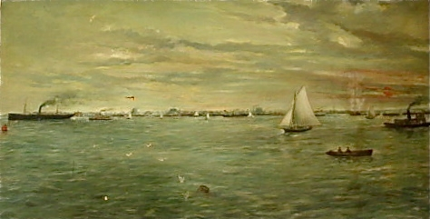 Verner Moore White painting, The Harbor at Galveston, was painted for the Texas exhibit at the 1904 St. Louis World's Fair. Courtesy of the Houston Public Library